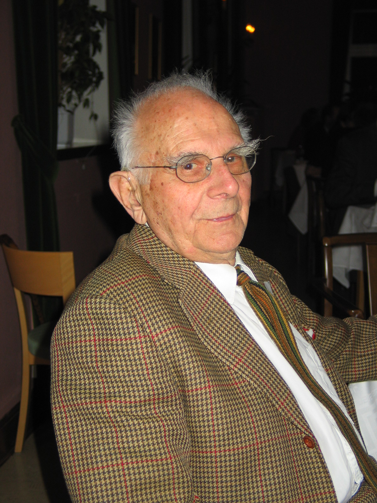 The physician Jan Barr